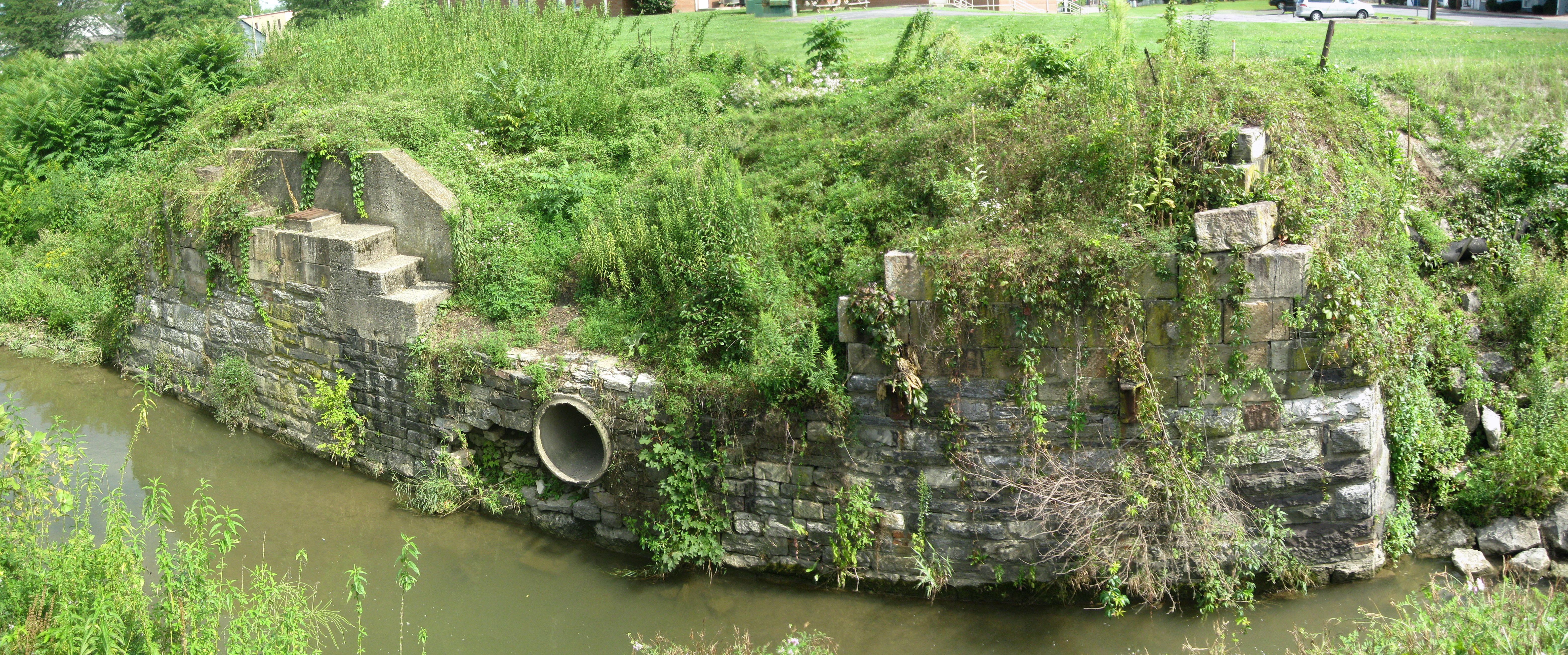 Pennsylvania Canal and Limestone Run Aqueduct which carried the Pennsylvania Canal over Limestone Run in Milton, Northumberland County, Pennsylvania, USA.